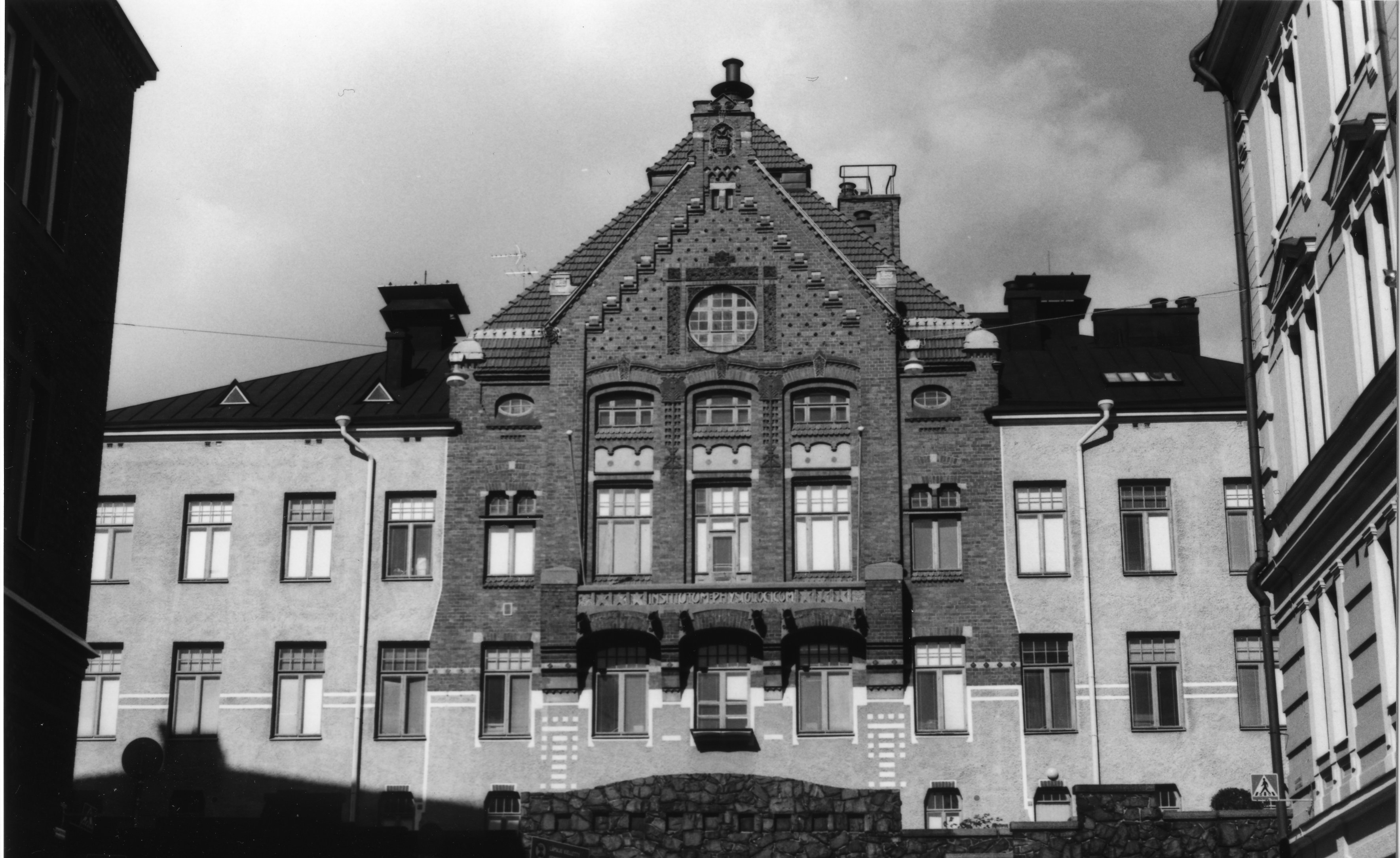 University of Helsinki: Psychology Department. Winter 2001